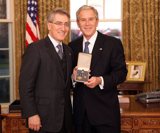 President George W. Bush stands with Robert "Robby" P. George after presenting him with the 2008 Presidential Citizens Medal Wednesday, Dec. 10, 2008, in the Oval Office of the White House. White House photo by Chris Greenberg